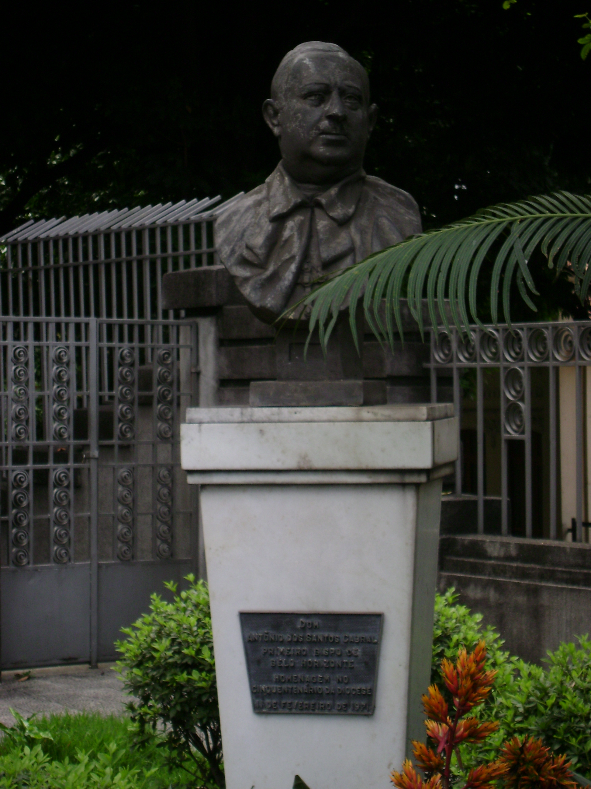 Statue of Dom Antônio dos Santos Cabral, the first bishop of Belo Horizonte, in Belo Horizonte, Minas Gerais, Brazil.